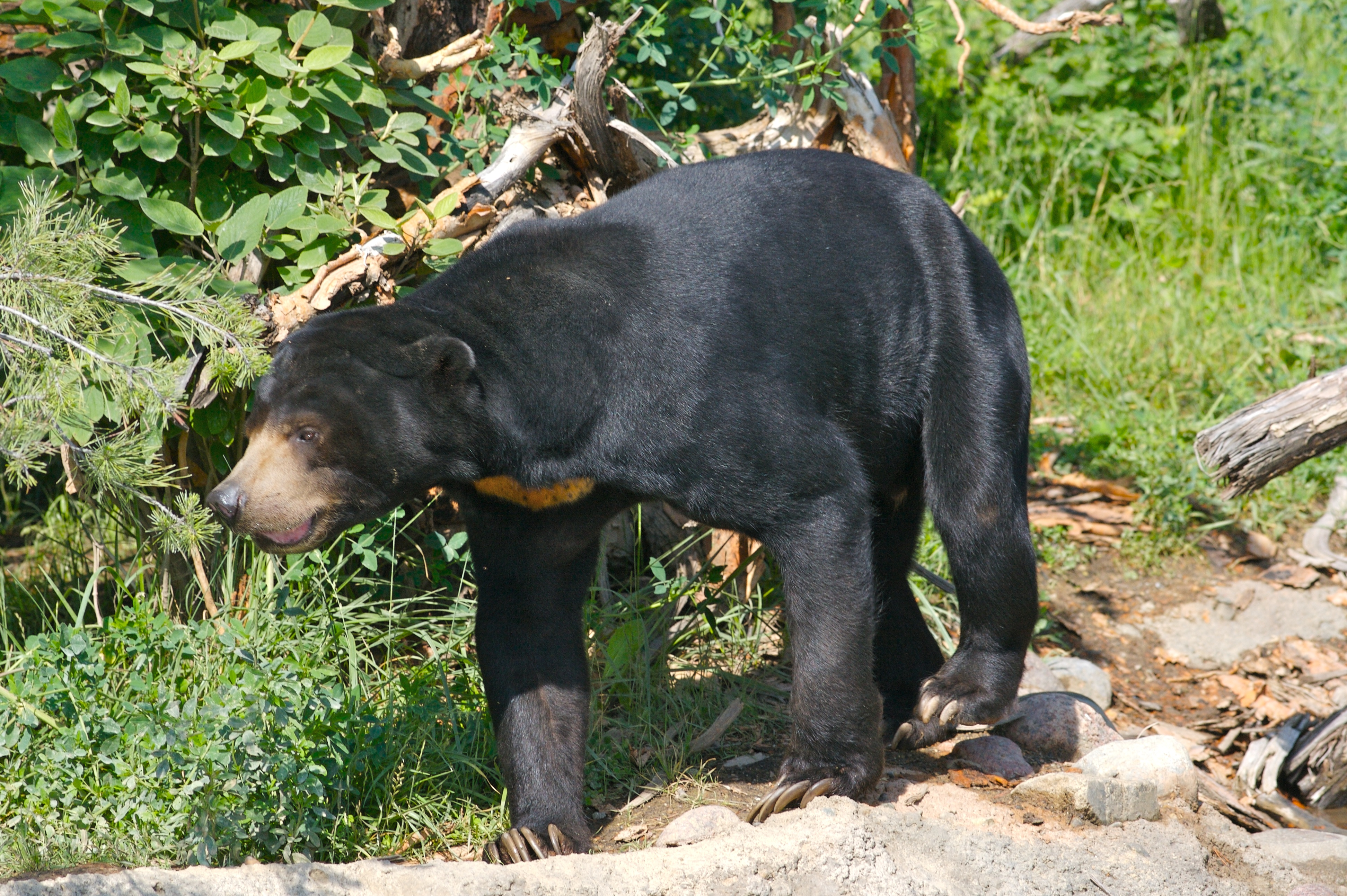 Sun Bear (Helarctos malayanus) in Columbus Zoo